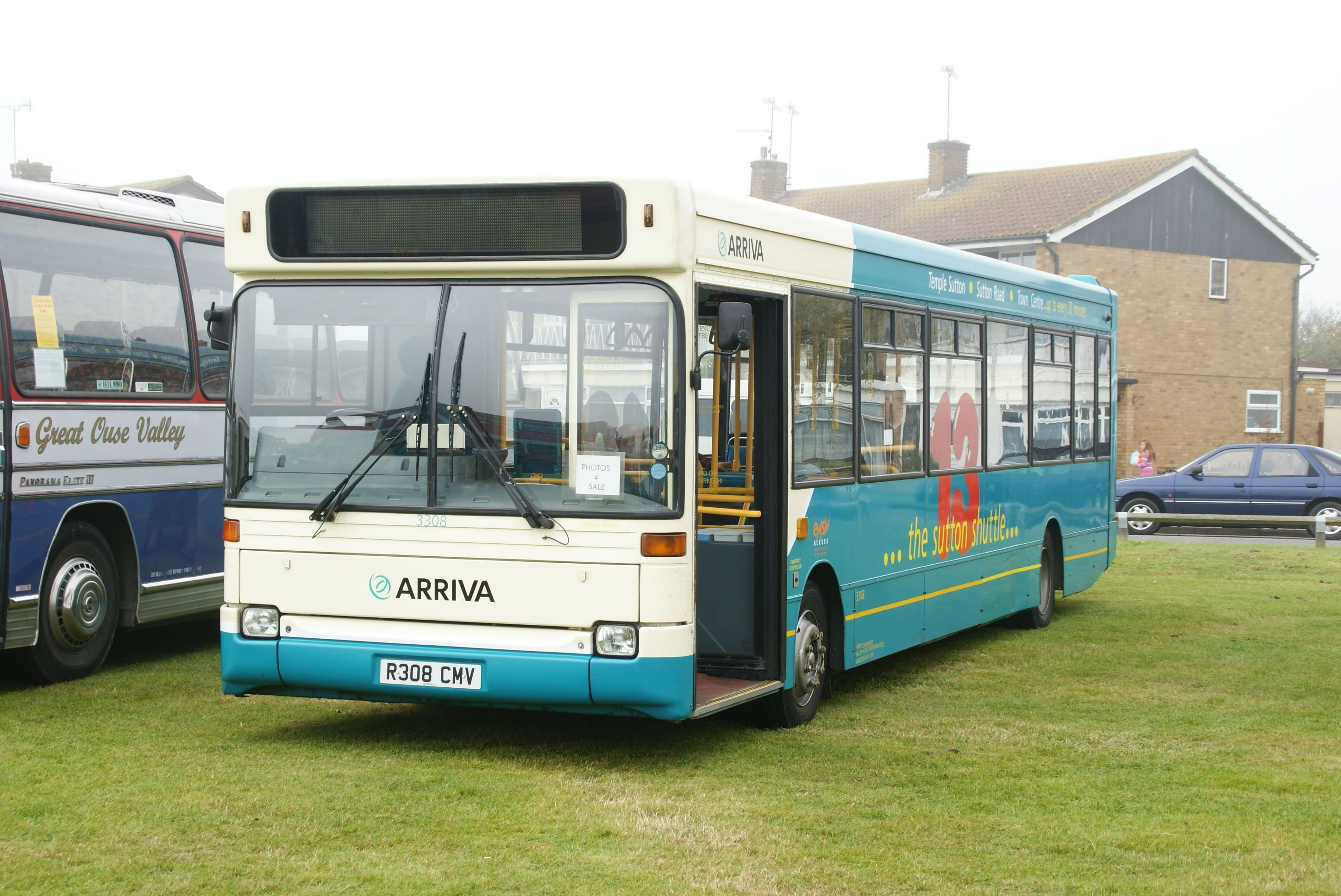 Arriva Southend 3308 (R308 CMV), a Dennis Dart SLF/Plaxton Pointer, seen at the 2008 Canvey Island bus rally - on 12 October 2008. The bus wears "the sutton shuttle" branding for service 13 between Temple Sutton and Southend town centre. The branding has been removed since the photo was taken. The bus was new to Guildford & West Surrey in October 1997 as their DSL108. While a number of R--- CMV Darts remain with Arriva Guildford & West Surrey at Guildford depot, many, like 3308, were spread around Arriva Southern Counties.